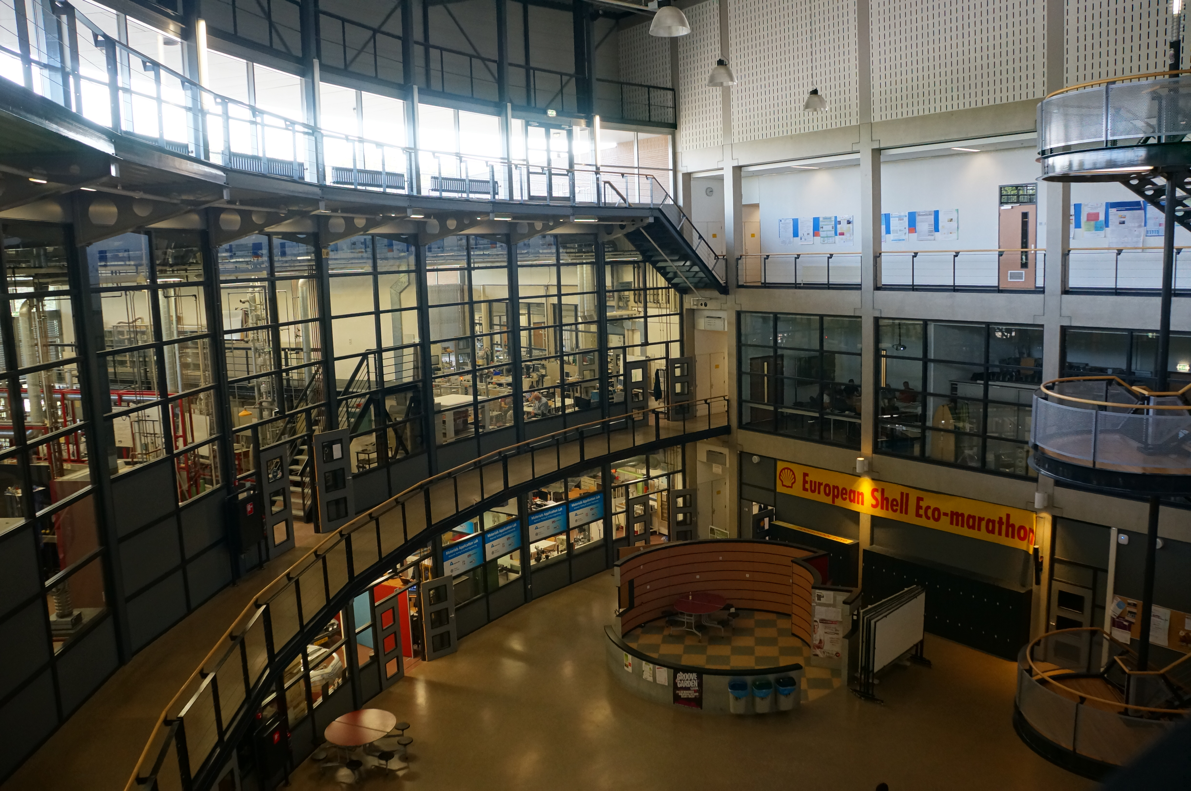 Labs, Zuyd University Of Aplied Sciences, departement Heerlen